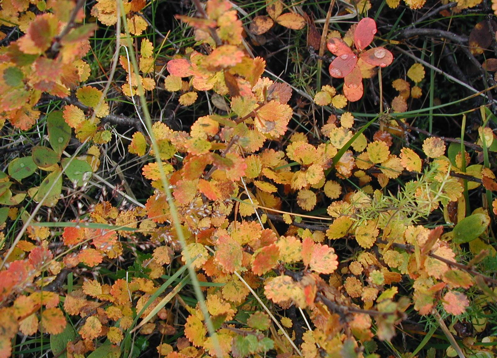 Betula nana: Autumn-colours at the natural habitat in Iceland.